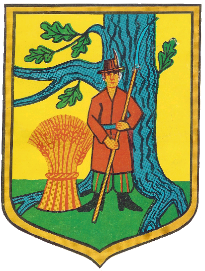 Coat of arms of gmina Sędziejowice 1991-2012